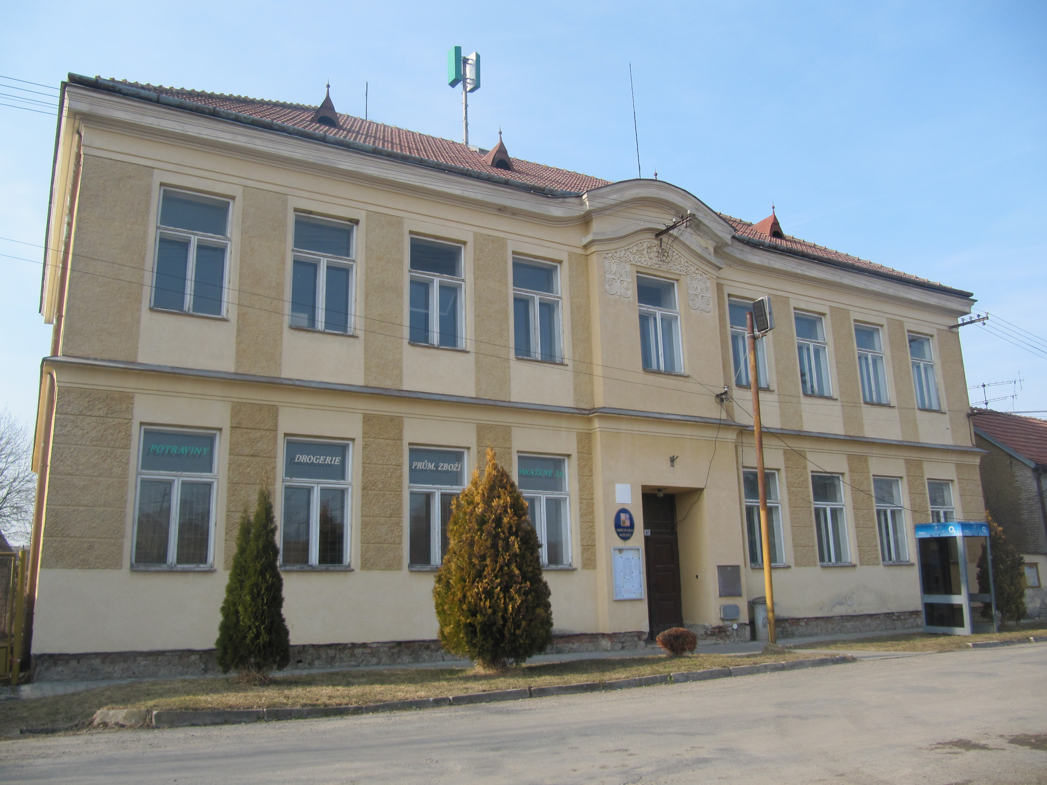 Kožušice in Vyškov District, Czech Republic. Municipal office.